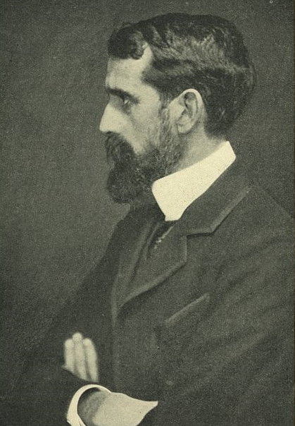 French painter Paul César Helleu (1859–1927). Illustration in "Metropolitan Magazine", Vol. XVII, no. 3 (March, 1903), p. 328, accompanying Helleu's article "The Portrait Etcher and His Art," from a photograph by Zaida Ben-Yusuf.